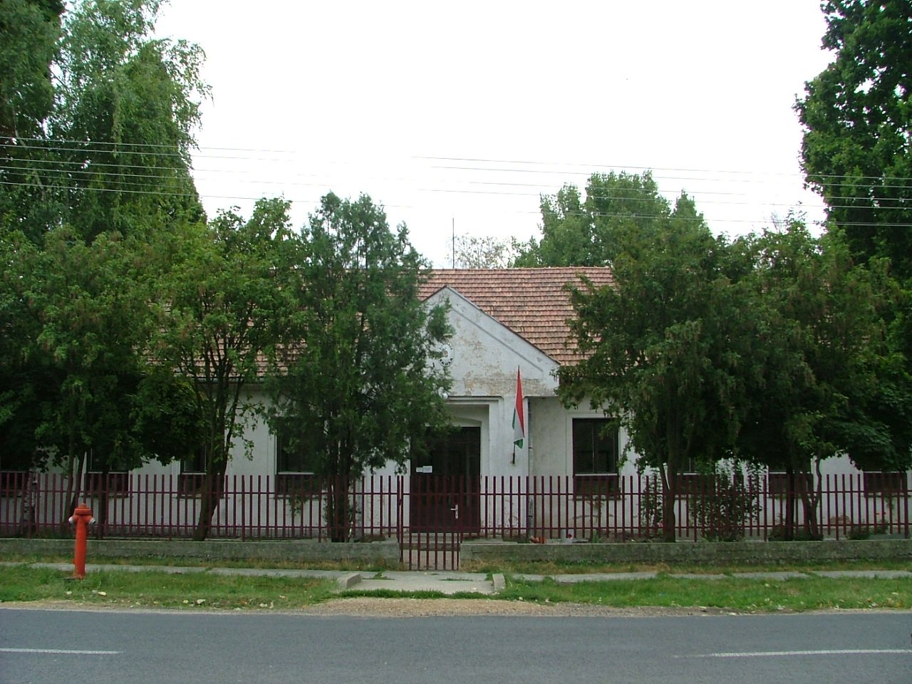 Rábacsécsény school in Hungary